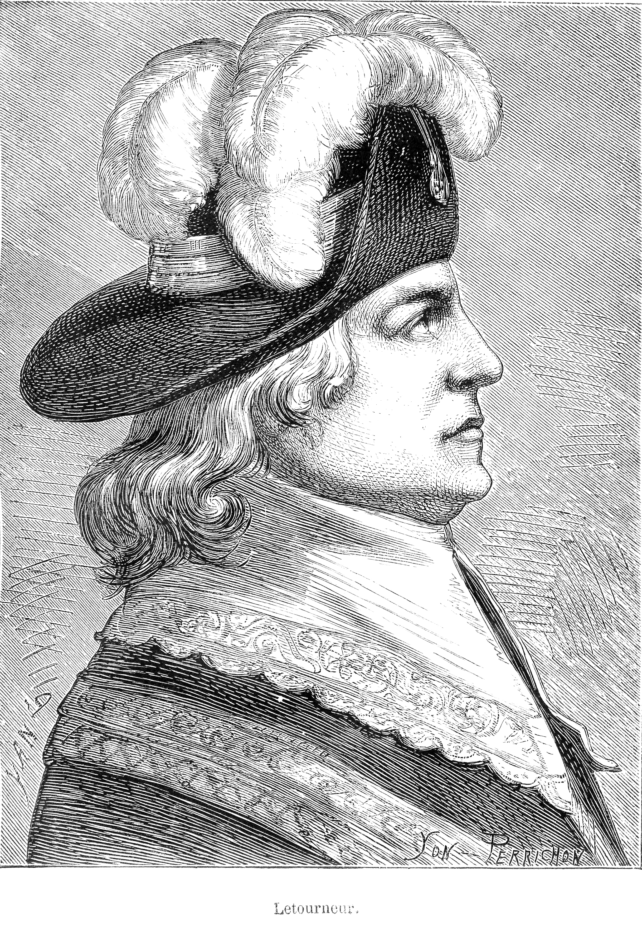 Etienne-François Letourneur, one of the five first Directors of the executive Directory of the French Republic in 1795